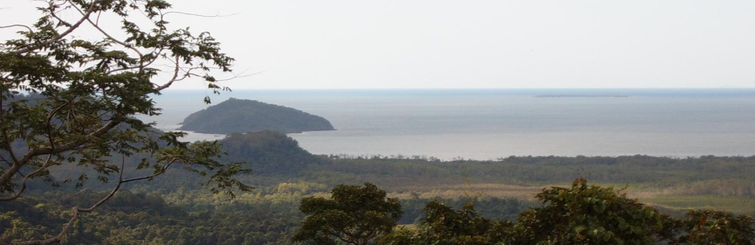 L-R looking south-east: Cape Kimberley (southern end of Cape Tribulation), Snapper Island, Low Islets (Low and Woody Islands) with Batt Reef beyond Far North Queensland, Australia